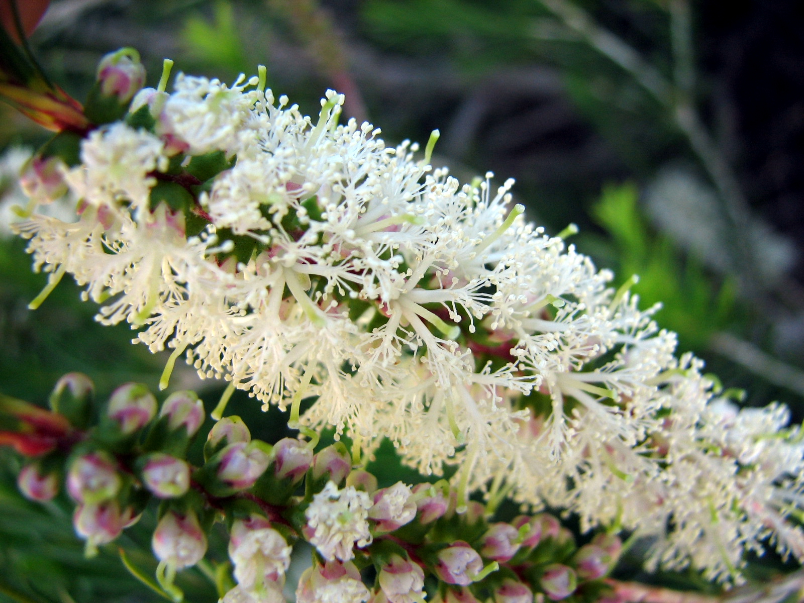 Melaleuca armillaris near the coas at Coogee, Sydney. Taken by myself on 10 October 2006.